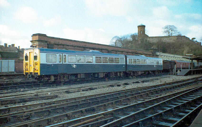 British Rail class 140 (140001)